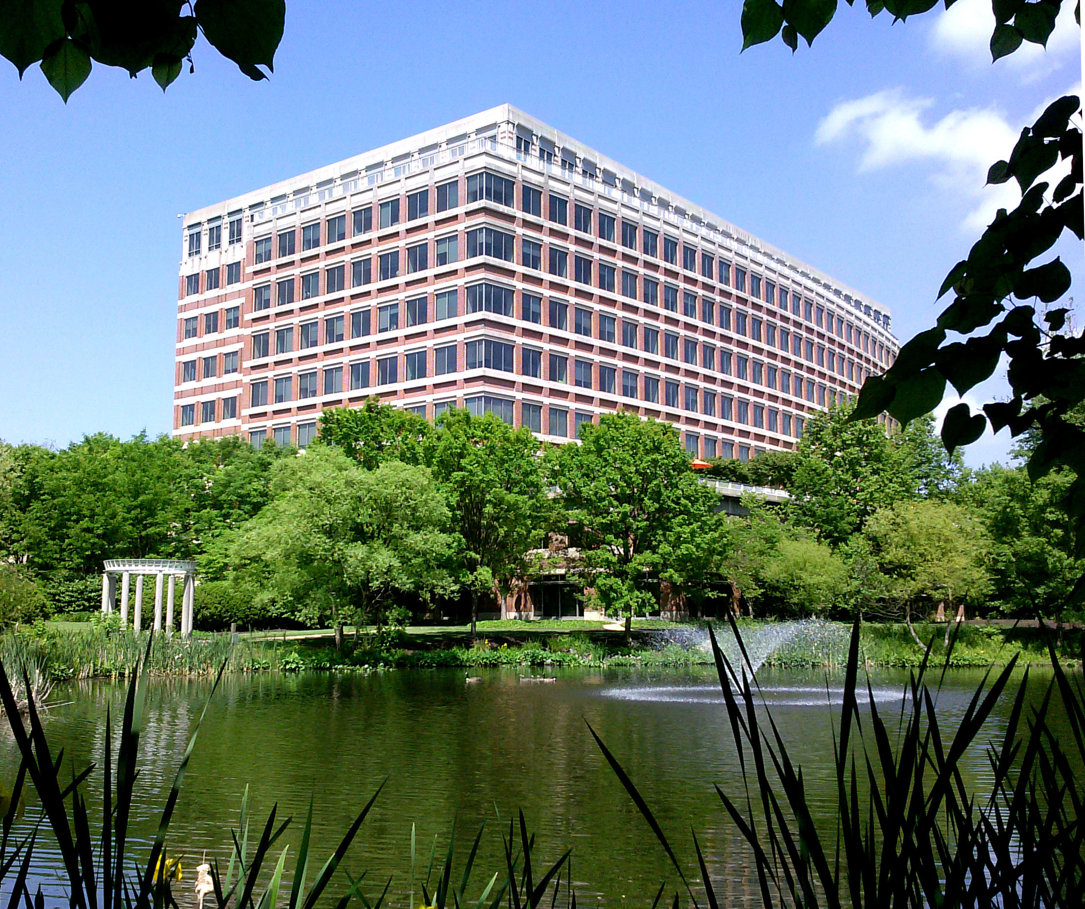 A view, from the southwest, of the Federal National Mortgage Association's (Fannie Mae's) Reston facility at 11600 American Dream Way.